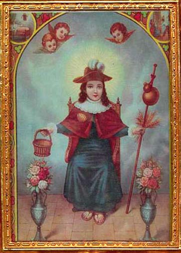 historical portrayal of Child Jesus